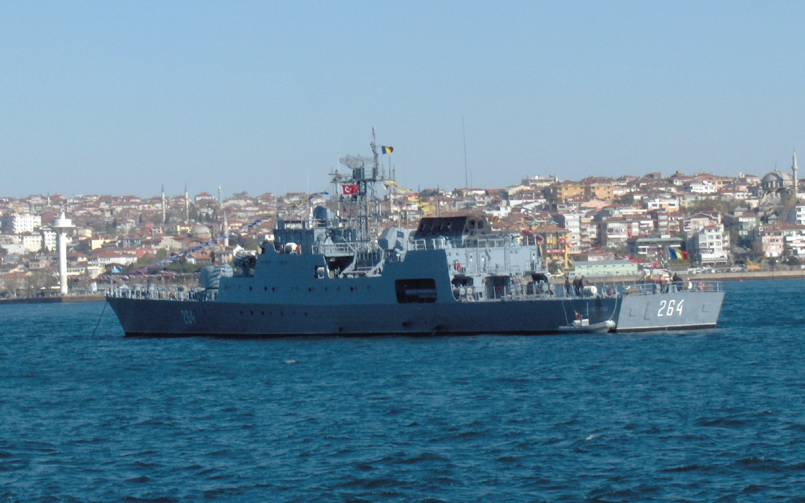 Romanian Contraamiral Eustaţiu Sebastian class corvette (Tetal-II) Contraamiral Eustaţiu Sebastian (F-264) at anchor in the Bosphorus; Istanbul, Turkey.